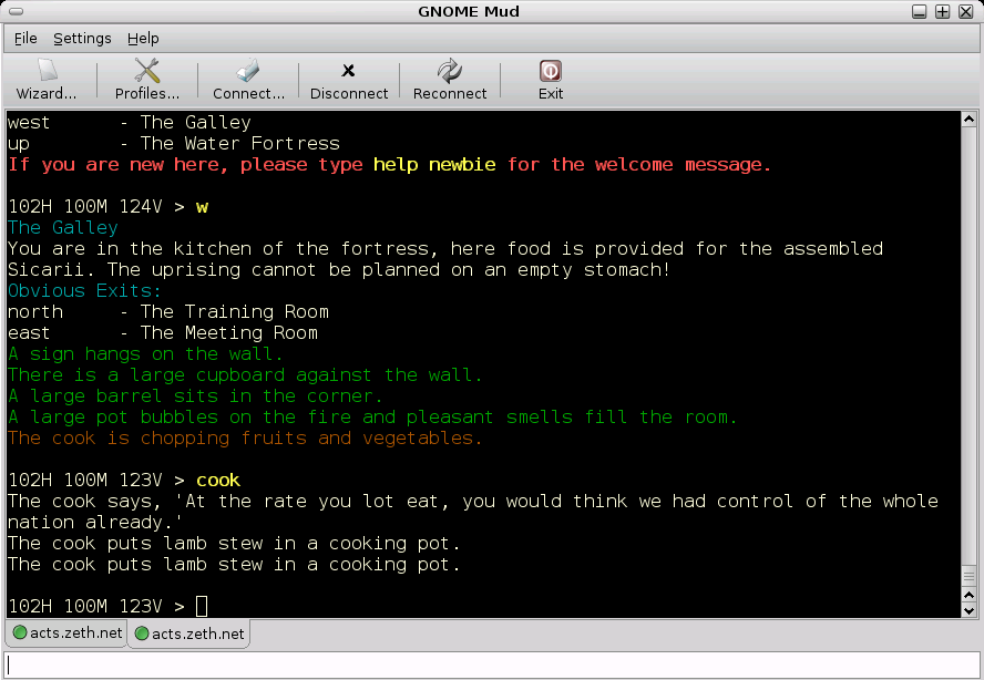 A screenshot of MUD client called GnomeMUD